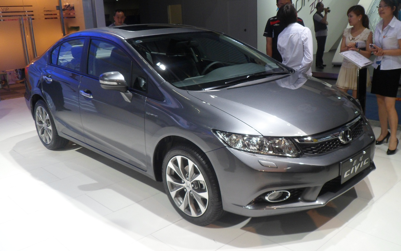 Honda Civic IX photographed at the 2012 Chongqing Auto Show, Chongqing, China.